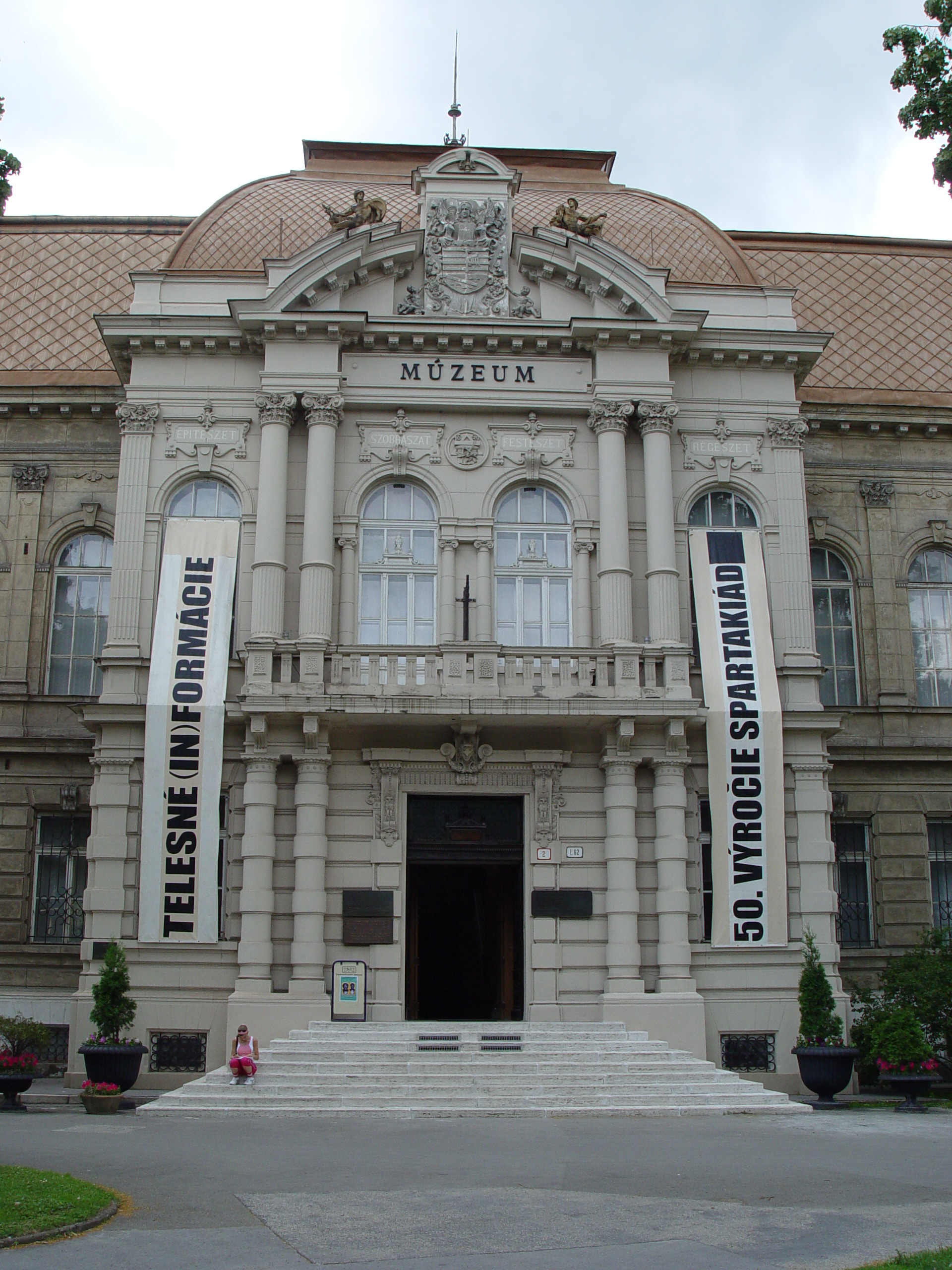 Slovakia, Kosice, East Slovak Museum